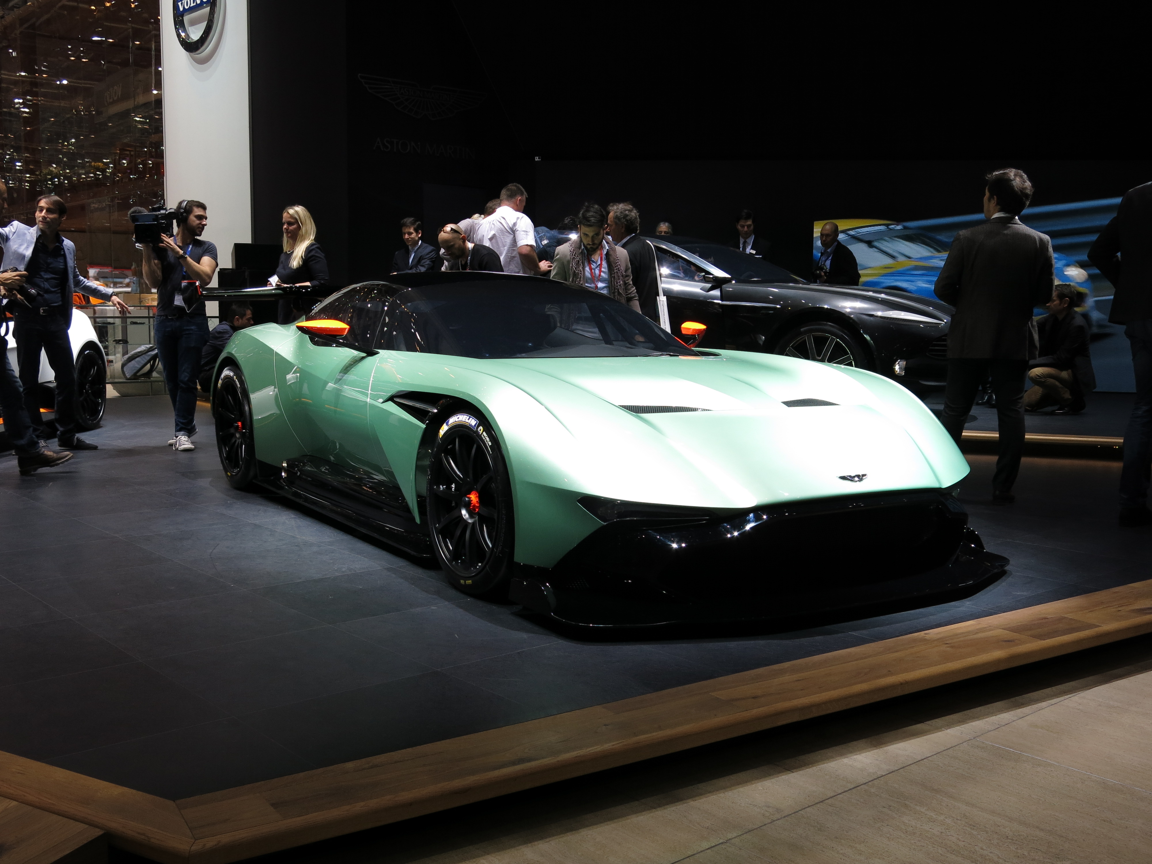 Geneva Motor Show 2015 (photo taken on the first press day)